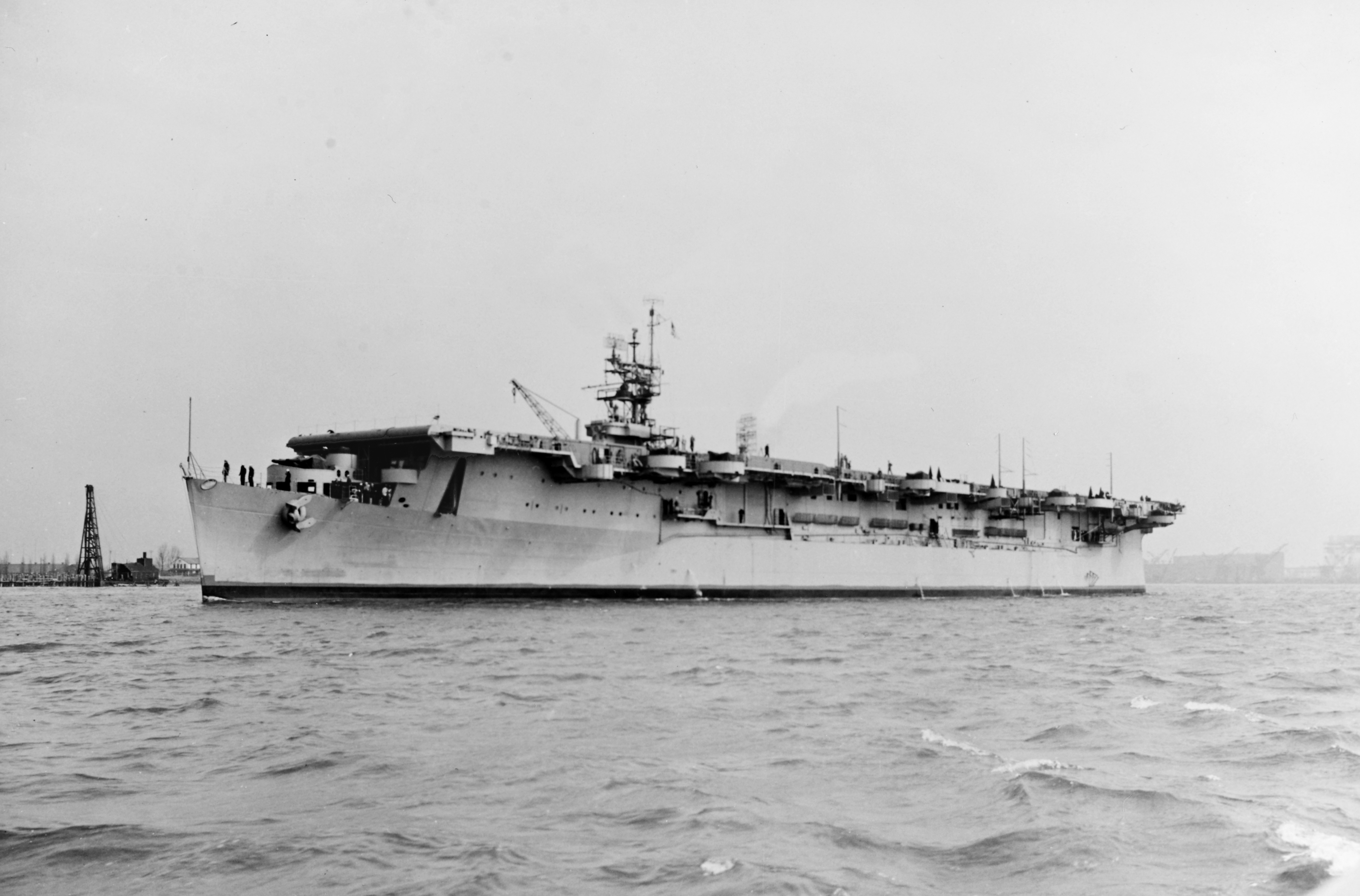 The U.S. Navy aircraft carrier USS Belleau Wood (CV-24) in the Delaware River off the Philadelphia Naval Shipyard, Pennsylvania (USA), 18 April 1943. Note the SK-1, SC and SG radar and YE aircraft homing beacon antennas. Belleau Wood was redesignated "CVL-24" on 15 July 1943.